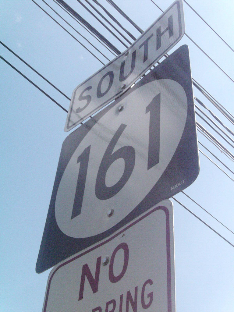 A close-up of the lone NJ 161 shield in Clifton, New Jersey.